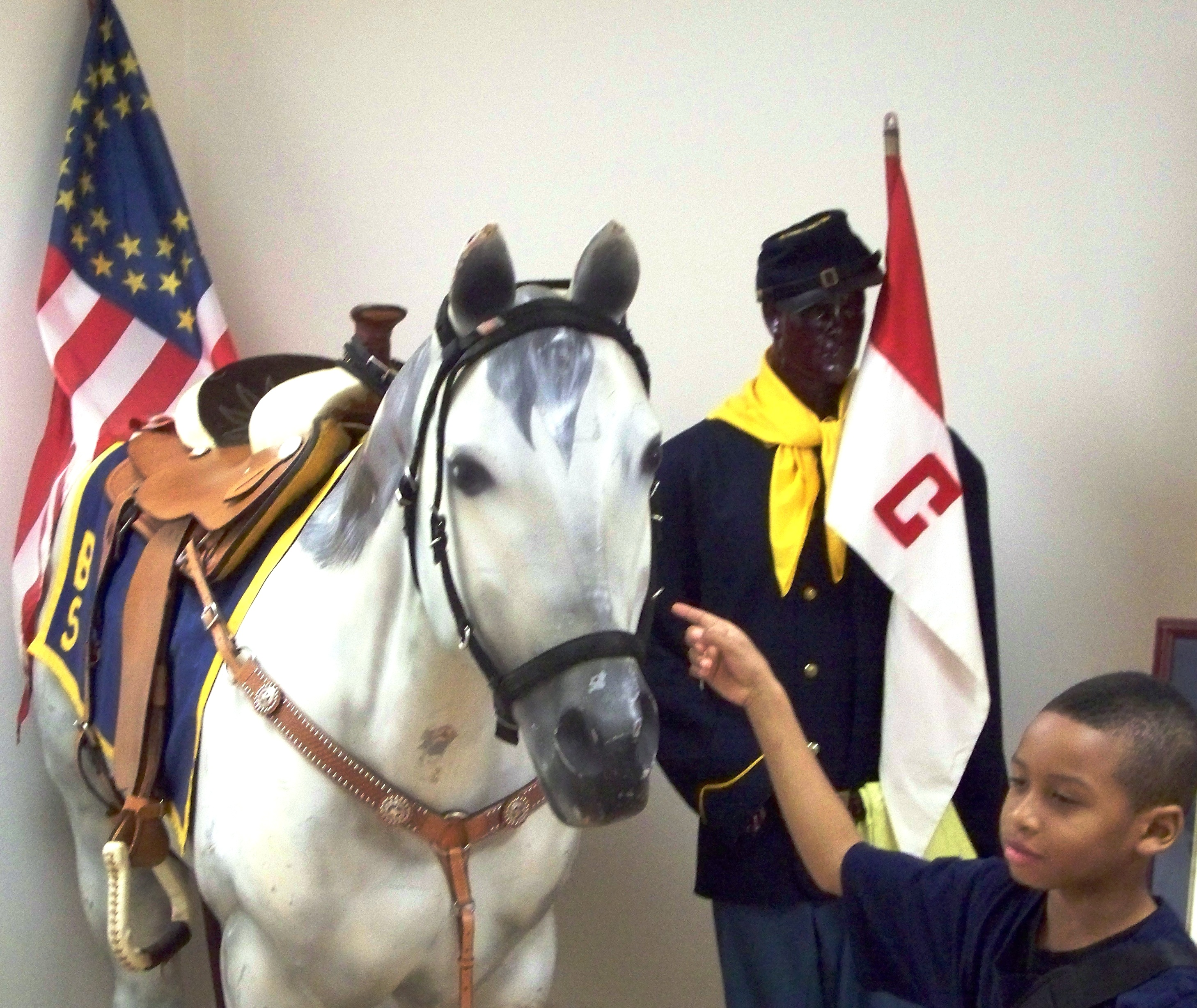 Buffalo Soldiers Display in Tangipahoa African American Heritage Museum